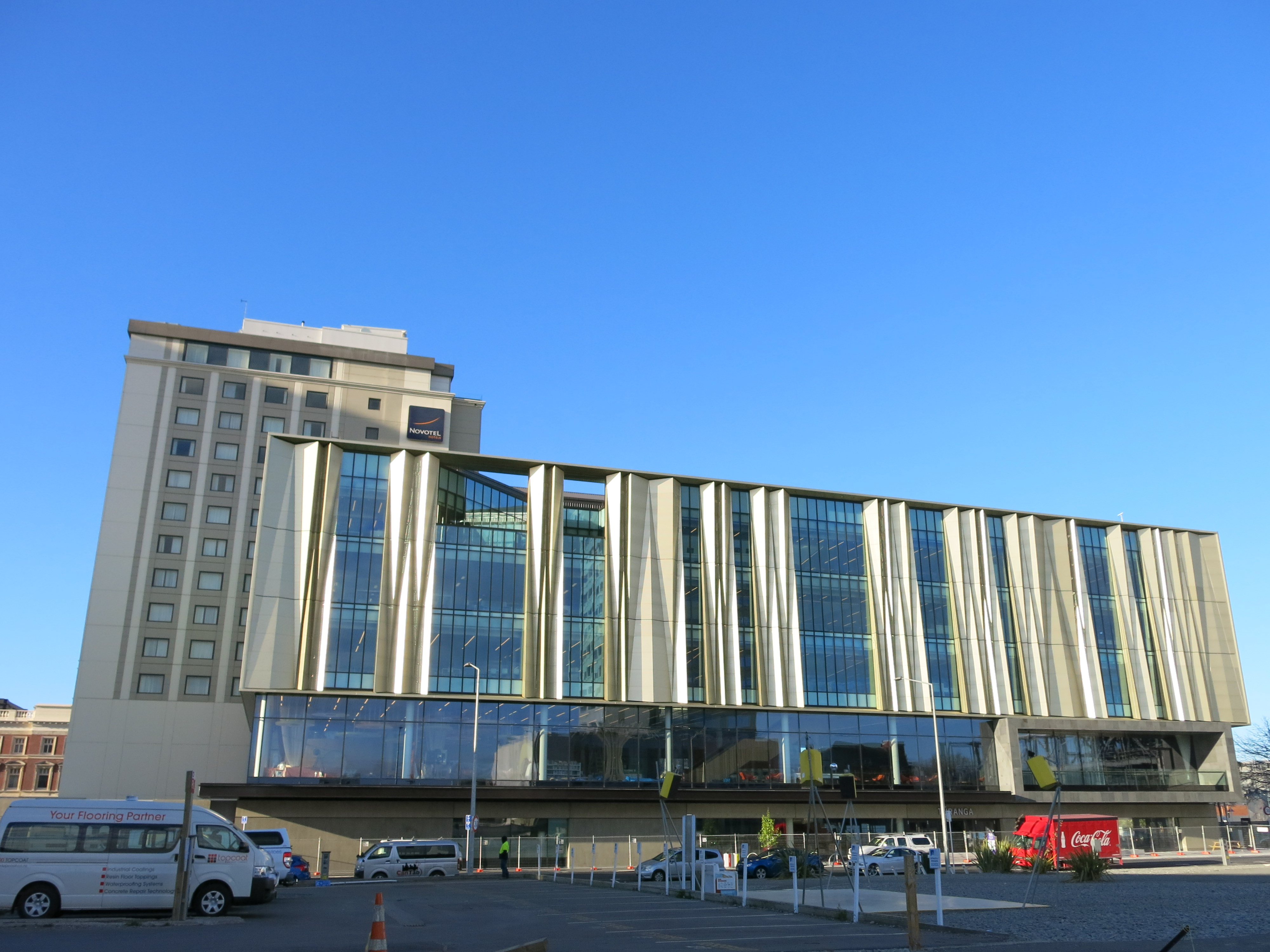 View of Tūranga before its opening. Tūranga is the central library of Christchurch City Libraries, Christchurch, New Zealand.